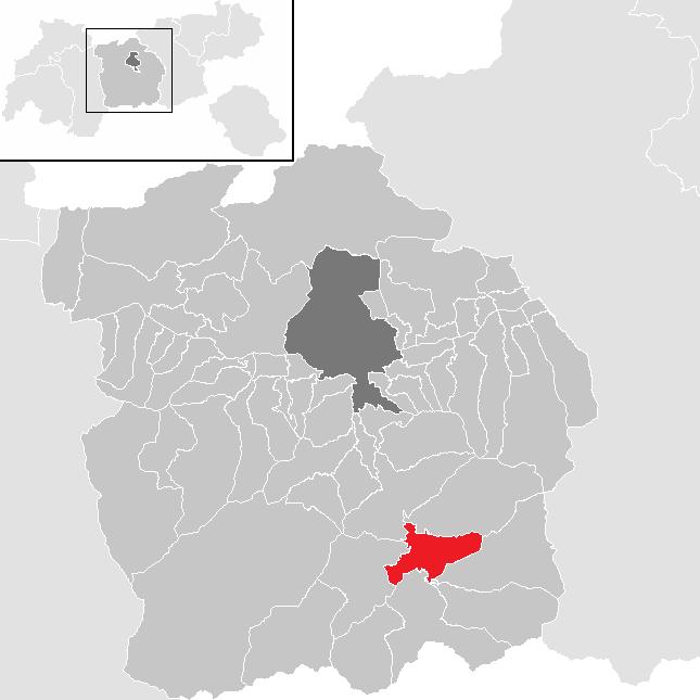 District Innsbruck Land